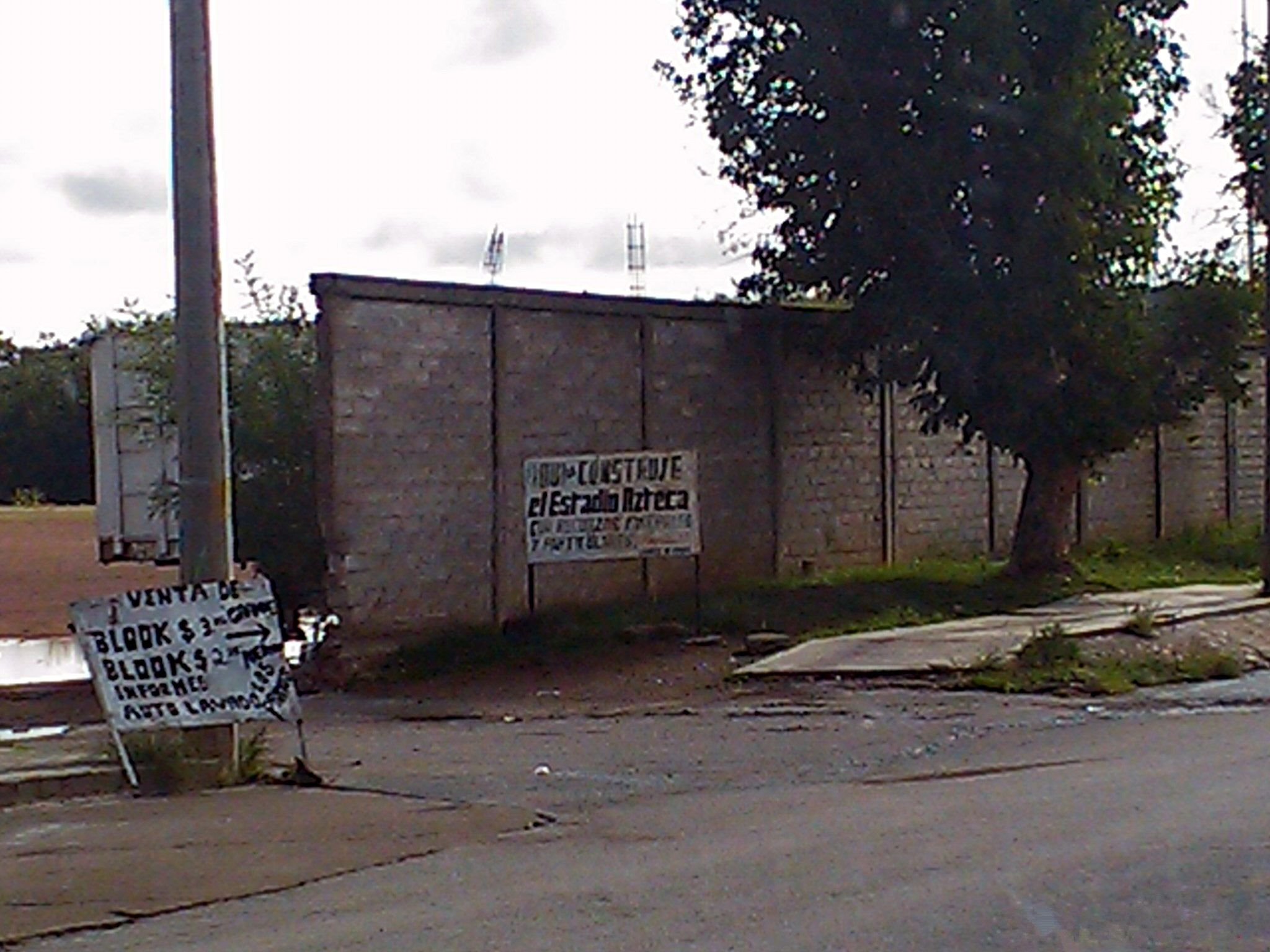 The Azteca Stadium, already in construction, located at Sain Alto, Zacatecas